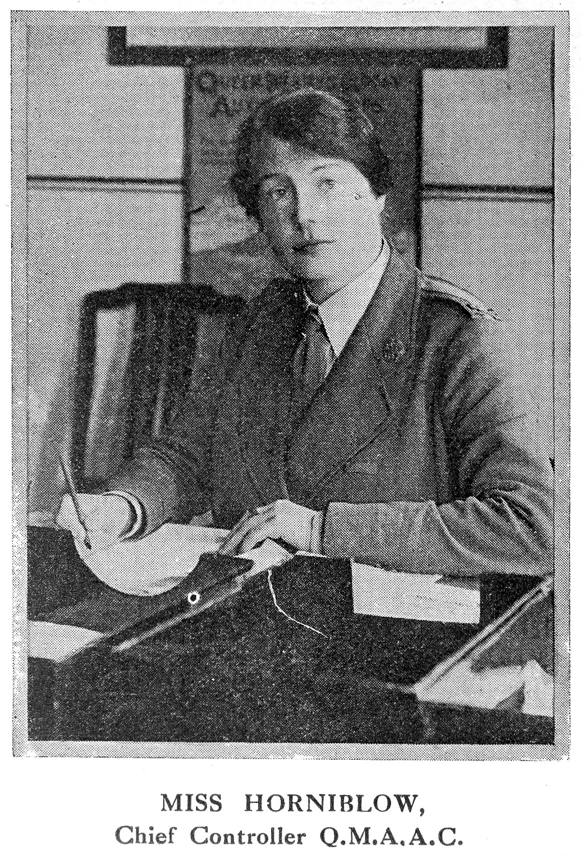 Miss Horniblow, Chief Controller Q.M.A.A.C. General Collections